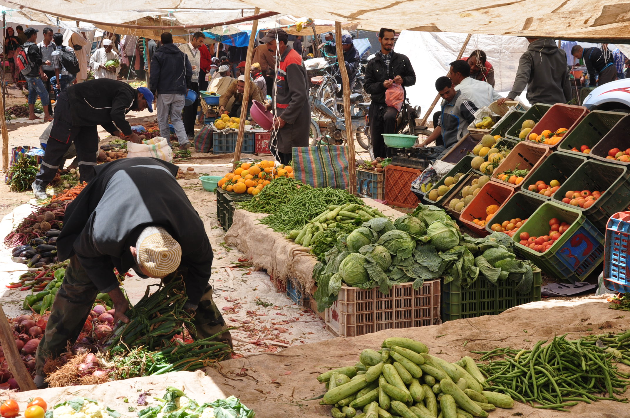 Fruits and vegetables on the market in Skoura (Morocco, Souss-Massa-Draa region, Ouarzazate Province).